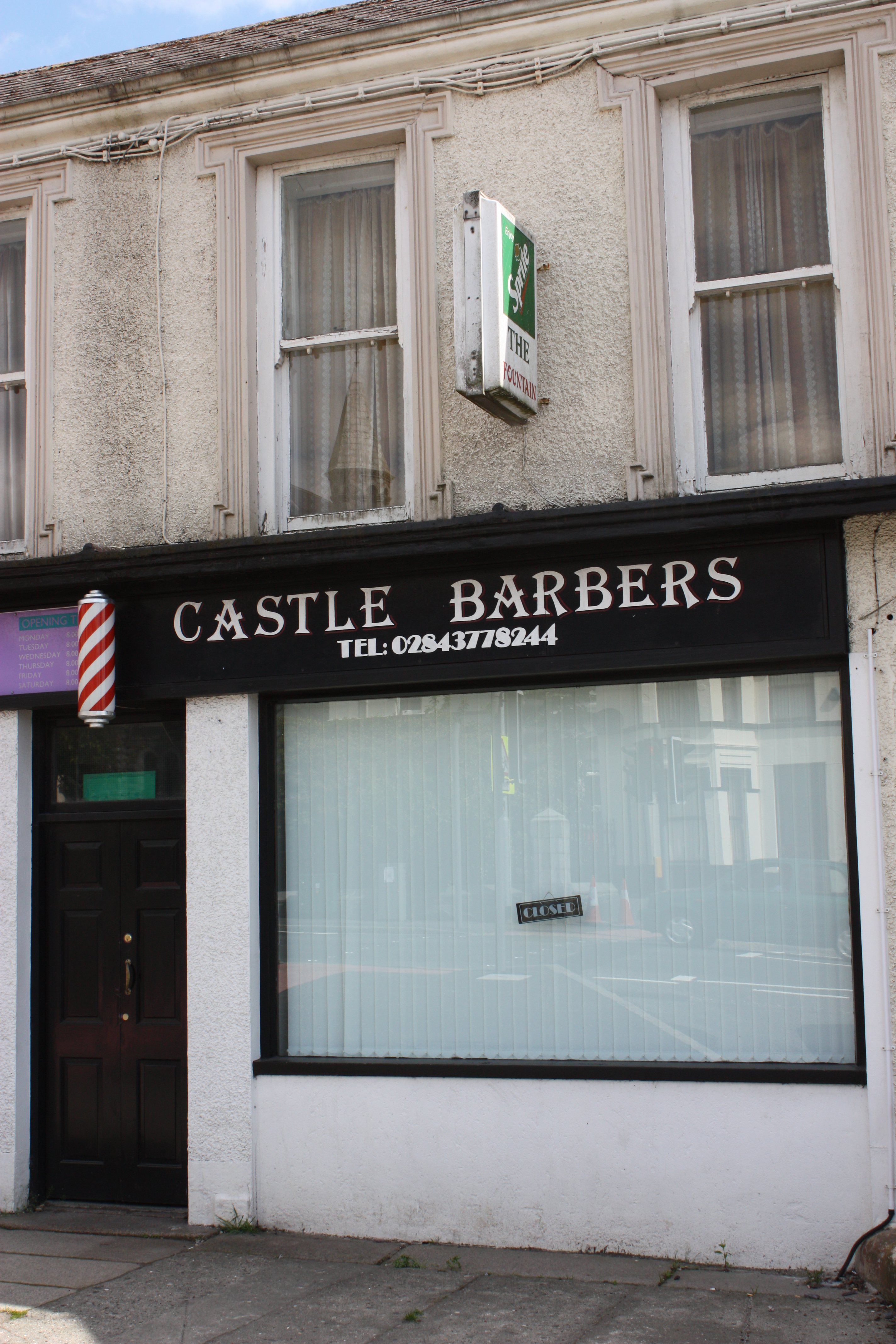 Castle Barbers, Main Street, Castlewellan, County Down, Northern Ireland, May 2010